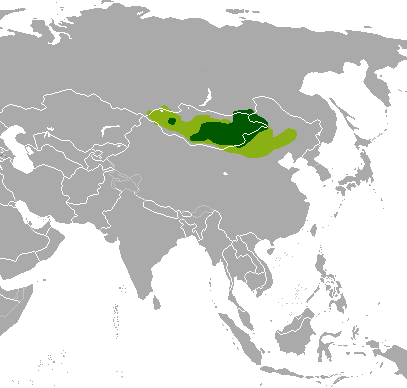 Historic (light green) and present range of the Mongolian gazelle (Procapra gutturosa) according to Mallon, D.P. 2008. Procapra gutturosa. In: IUCN 2012. IUCN Red List of Threatened Species. Version 2012.1. . Downloaded on 30 July 2012. V. G. Heptner: Mammals of the Sowjet Union Vol. I Ungulates. Leiden, New York, 1989, ISBN 90-04-08874-1. (pp.636 ff.)